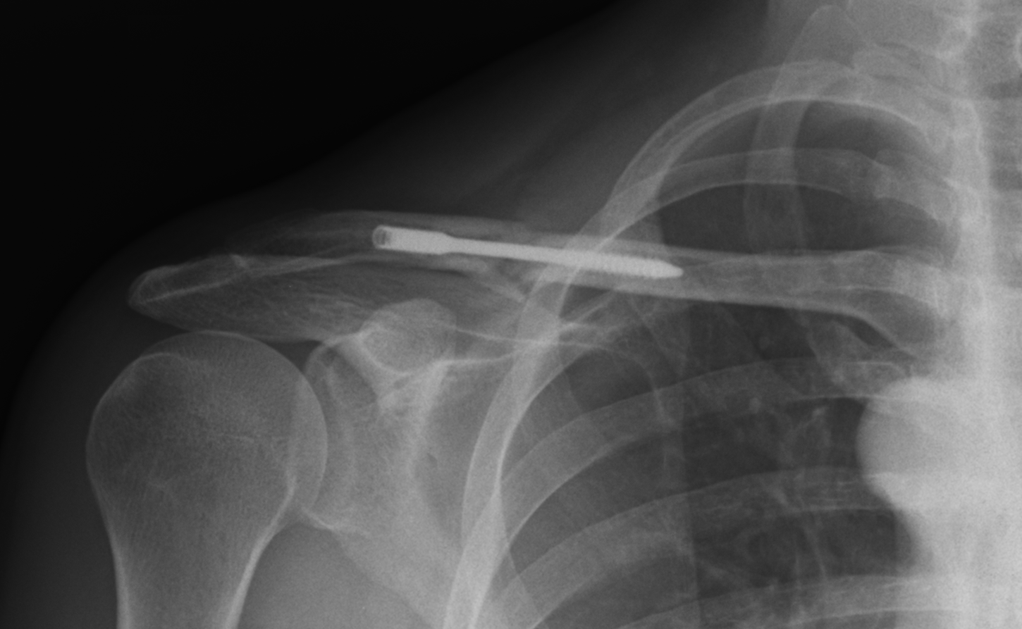 Fixed clavicular fracture using a pin